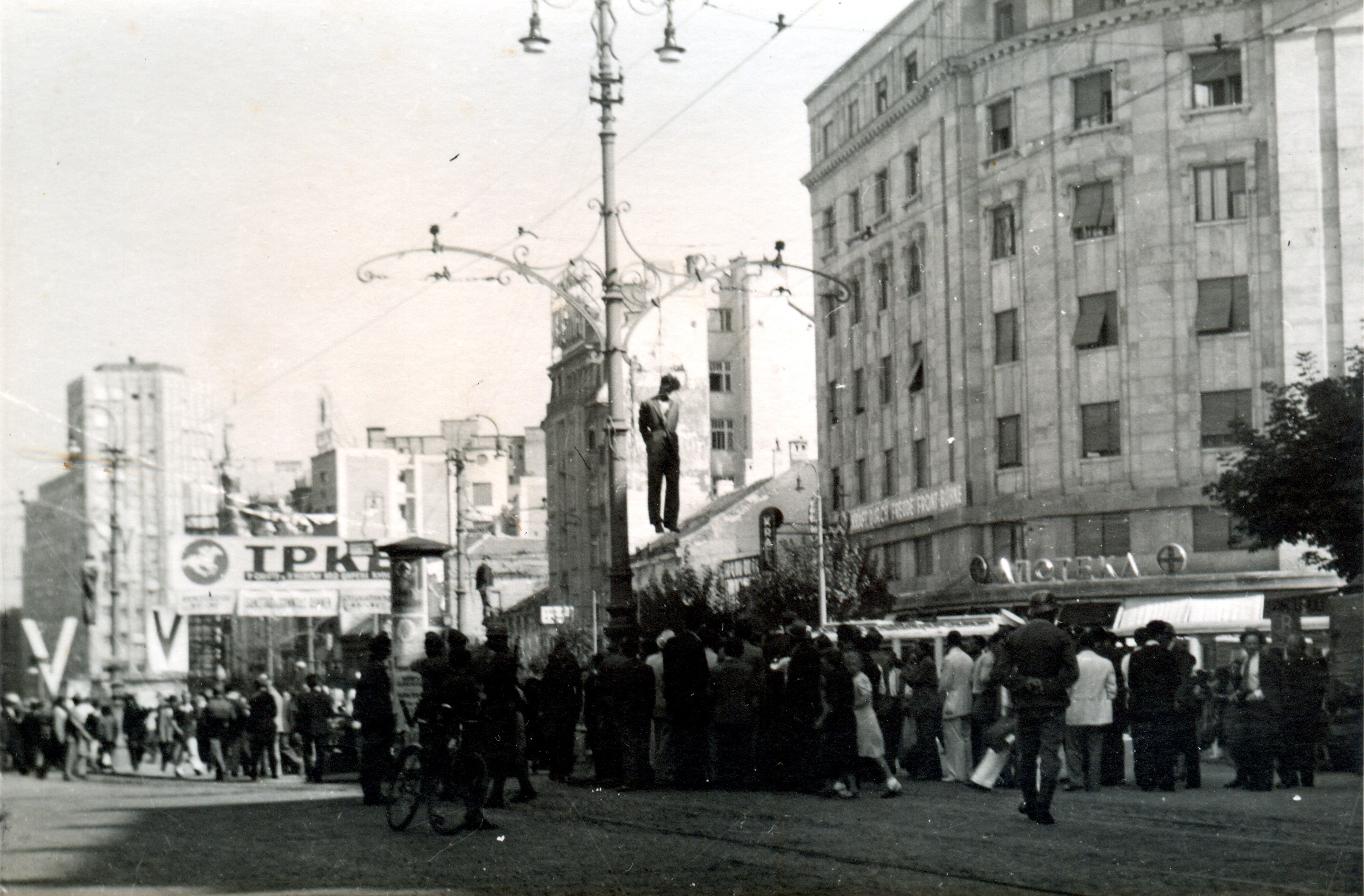 The first public executions by hanging in the Terazije Square in Belgrade Srpski (latinica): Obešeni ustanici na Terazijama u Beogradu 1941.